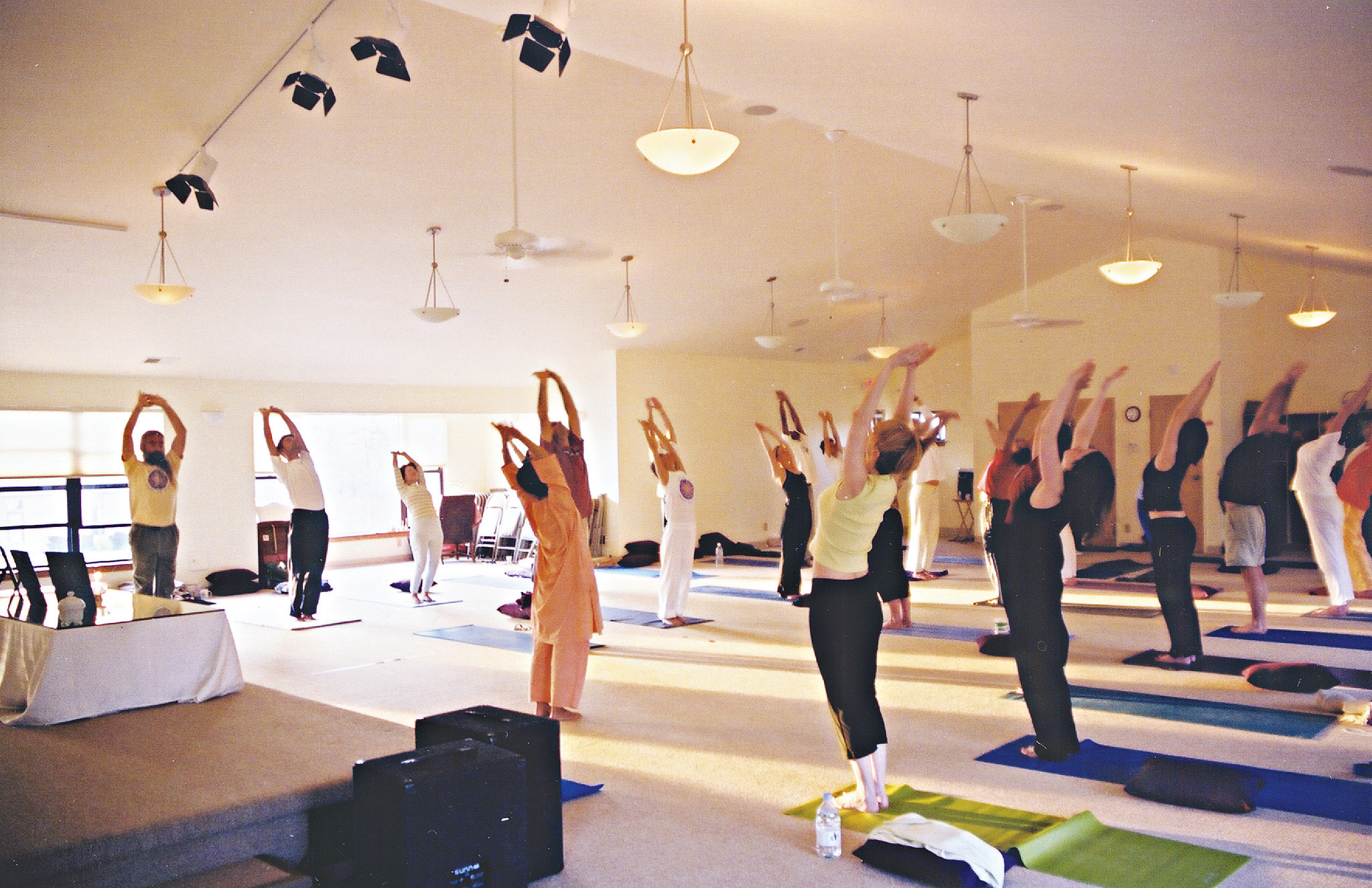 An Integral Hatha Yoga class being led by a swami at the Satchidananda Ashram in Yogaville, VA/